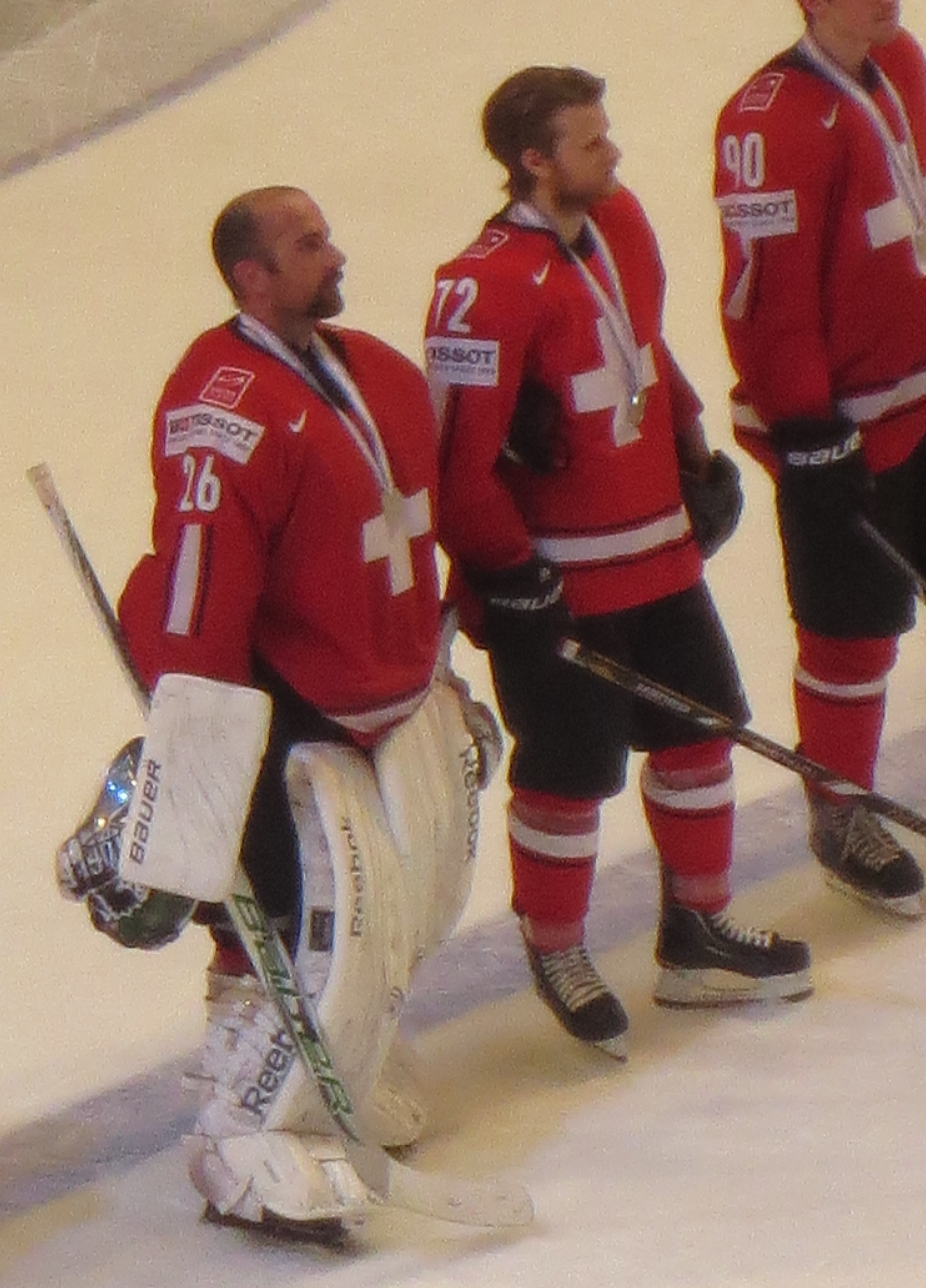 Martin Gerber and Patrick Von Gunten with theirs silver medals after the 2013 IIHF World Championship Final.